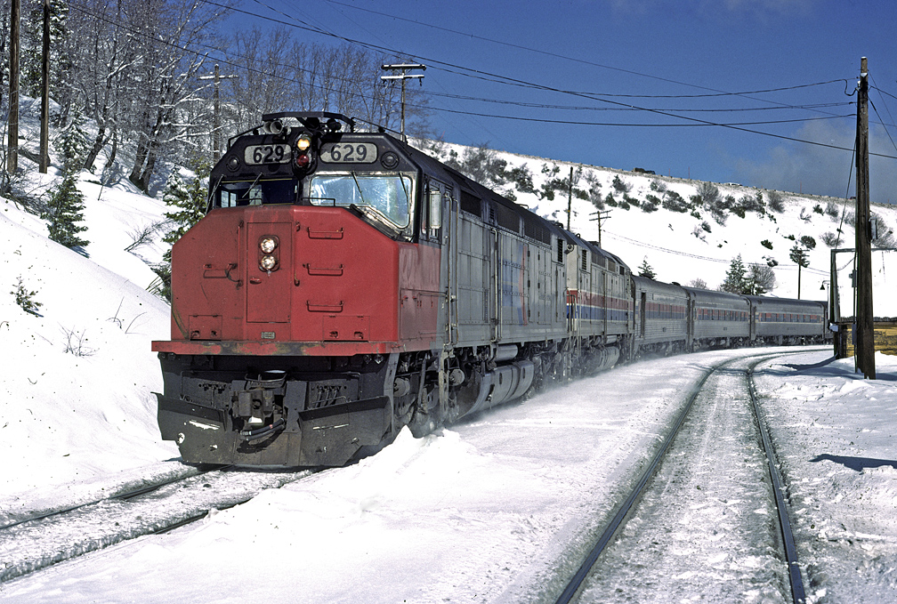 December 1978, then known as the "San Francisco Zephyr", Train #5 is led thru Emigrant Gap by SDP40F #629.